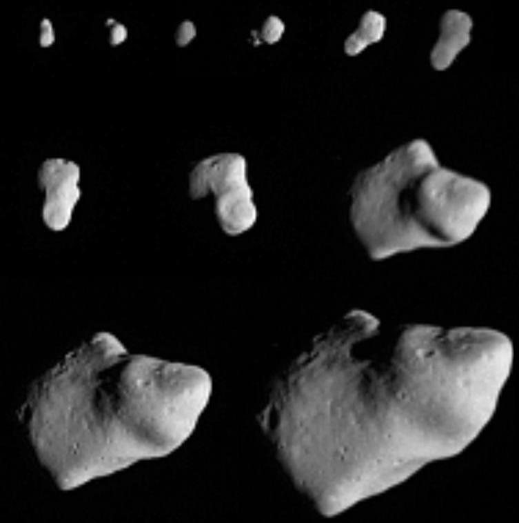 A montage of images taken by the Galileo spacecraft as it flew by the asteroid Gaspra on October 29, 1991. It shows Gaspra growing progressively larger in the field of view of Galileo's solid-state imaging camera as the spacecraft approached the asteroid. Sunlight is coming from the right. The earliest view (upper left) was taken 5 3/4 hours before closest approach when the spacecraft was 164,000 kilometers (102,000 miles) from Gaspra, the last (lower right) at a range of 16,000 kilometers (10,000 miles), 30 minutes before closest approach. Gaspra spins once in roughly 7 hours, so these images capture almost one full rotation of the asteroid. Gaspra spins counterclockwise; its north pole is to the upper left, and the "nose" which points upward in the first image, is seen rotating back into shadow, emerging at lower left, and rotating to upper right.